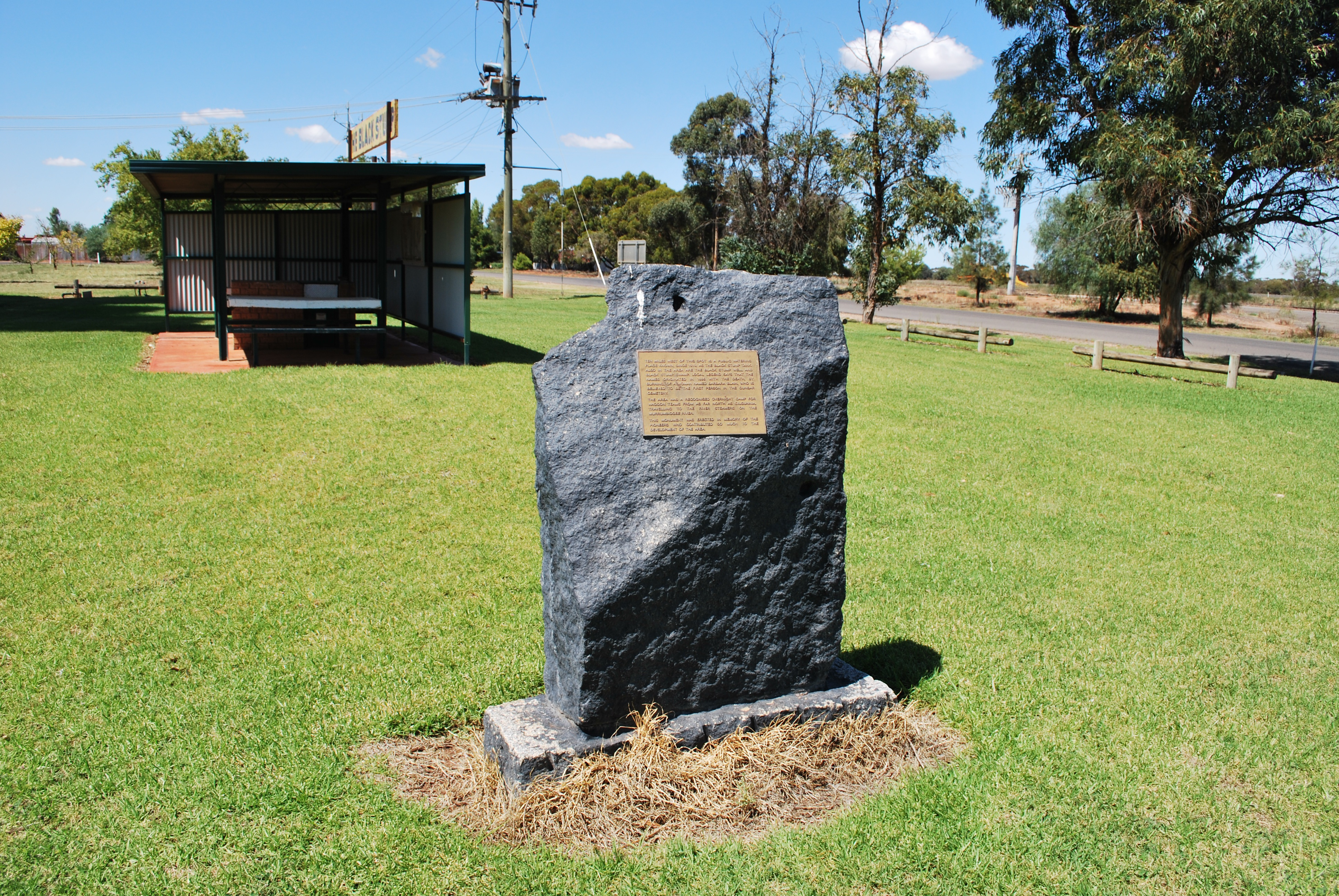 Black Stop Monument at Merriwagga, New South Wales